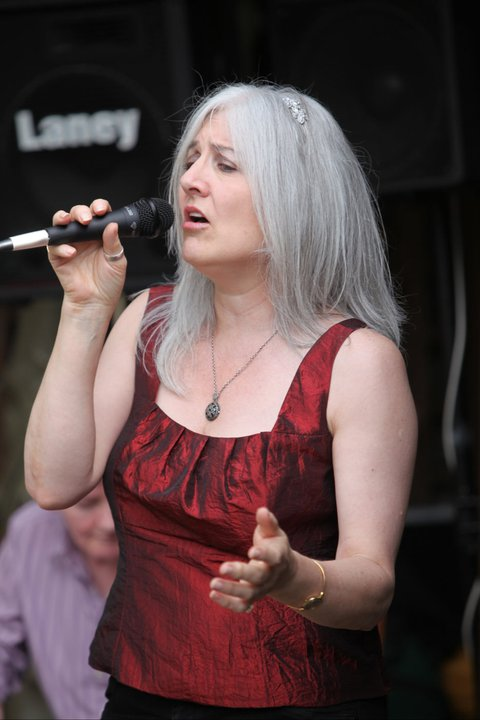 Photo of Alison O'Donnell on stage, taken by Niall Reddy, 2011.